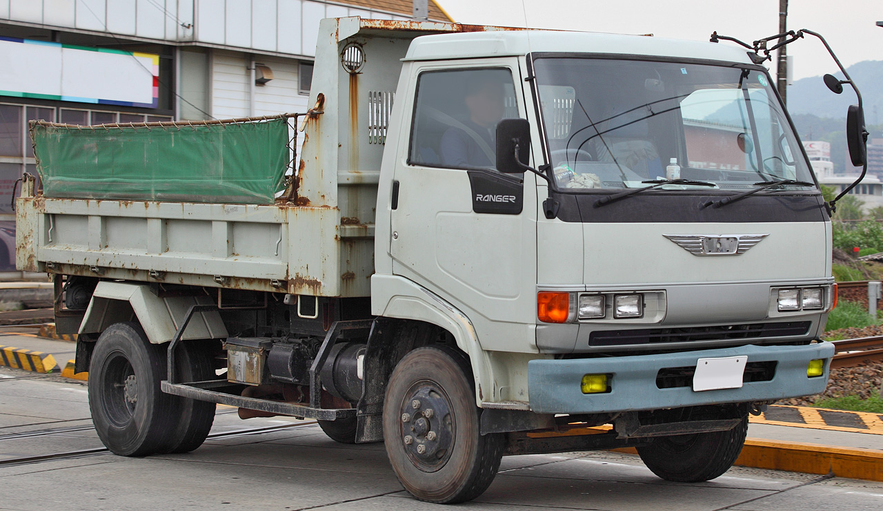 HINO Day-Cab Ranger FC Dump